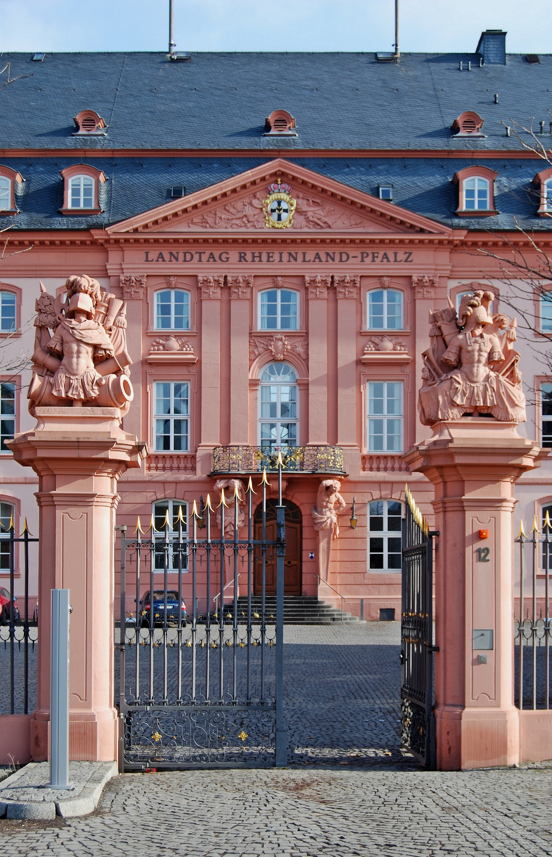 Entrance of Landtag of Rhineland-Palatinate, Mainz.